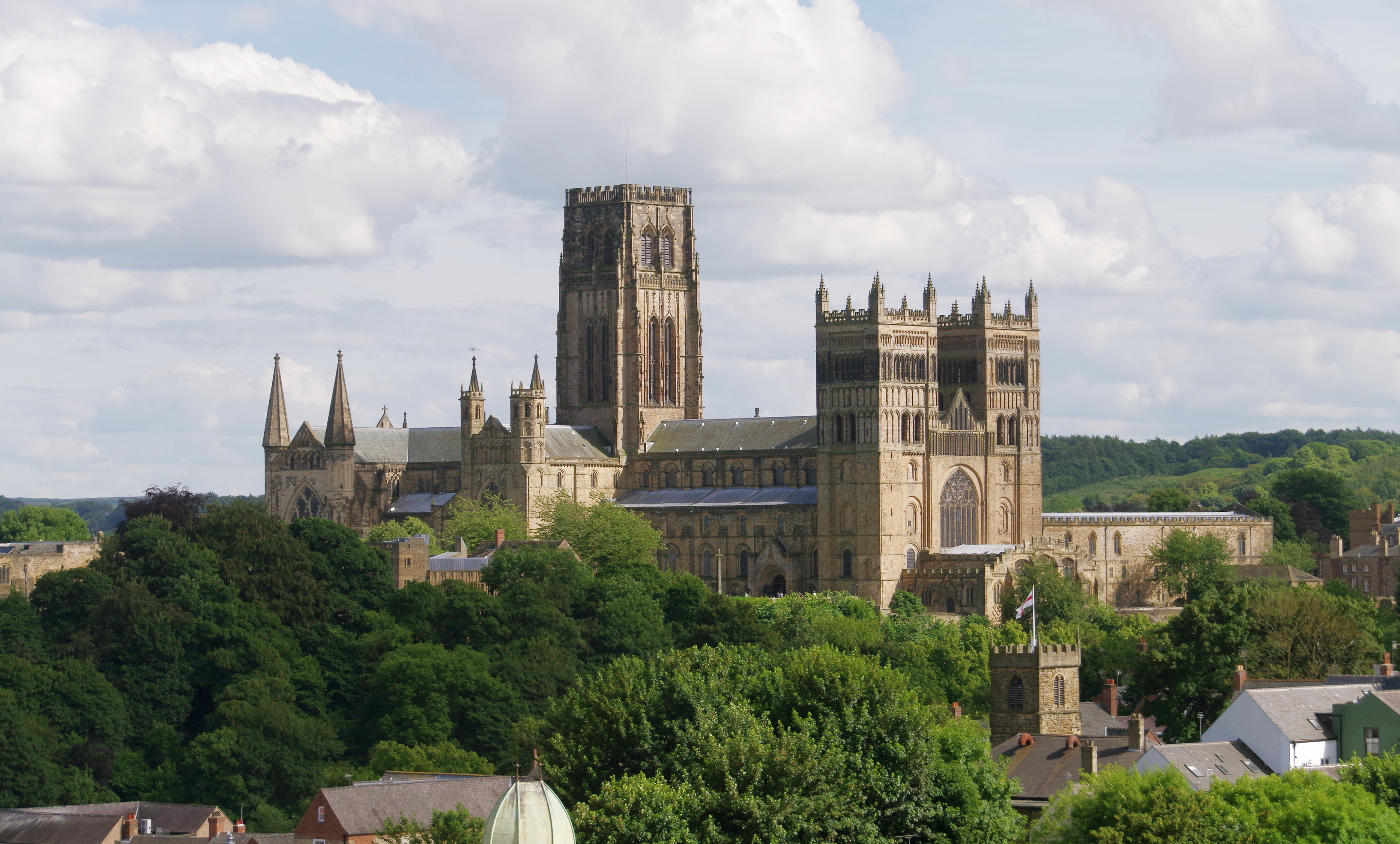 Durham Cathedral, seen from a train on the East Coast Main Line.